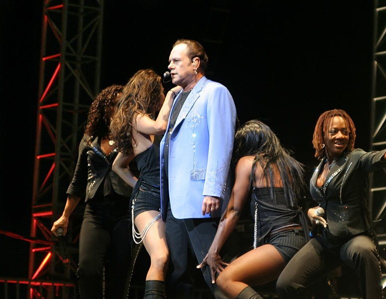 Harry Wayne Casey (KC) of KC & The Sunshine Band performing at the Del Mar CA Fairgrounds.